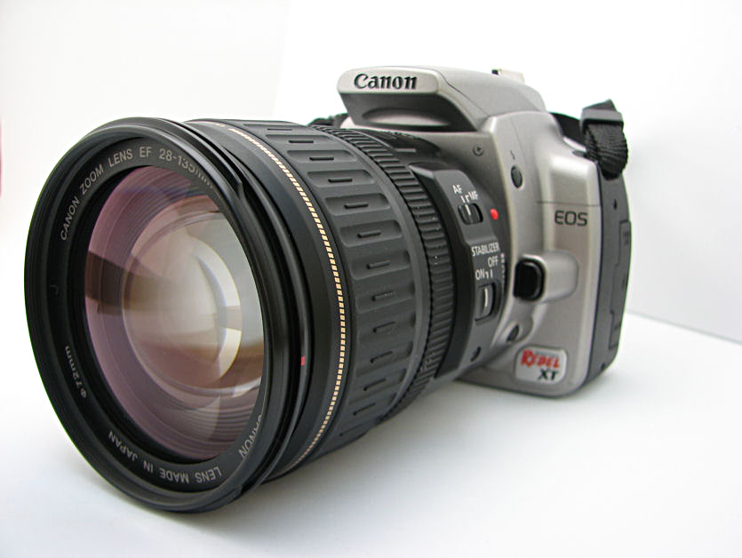 Canon Rebel XT EOS 350D